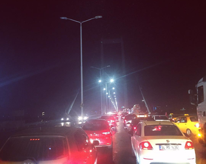 Boğaz Köprüsü'nin darbe girişi sonrası tek yönlü kapatılması, İstanbul (14 Temmuz 2016, 22.34)